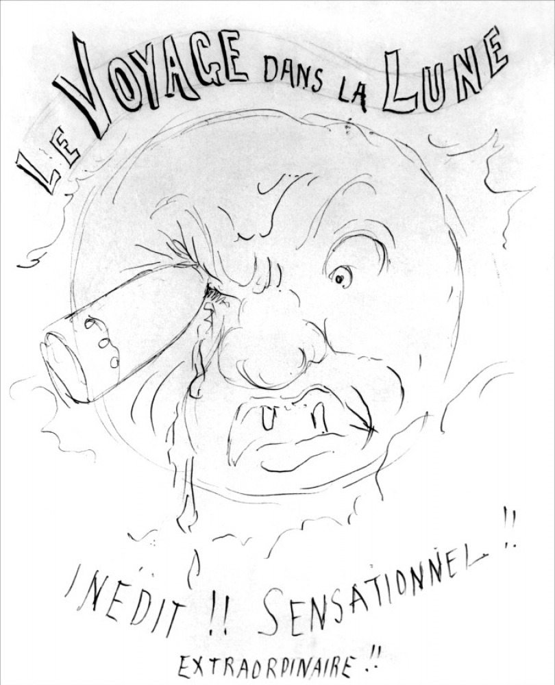 Preliminary sketch by Georges Méliès for a poster for his film Le Voyage dans la Lune ("A Trip to the Moon," 1902). Verified to be a Méliès drawing by the Cinémathèque française here.